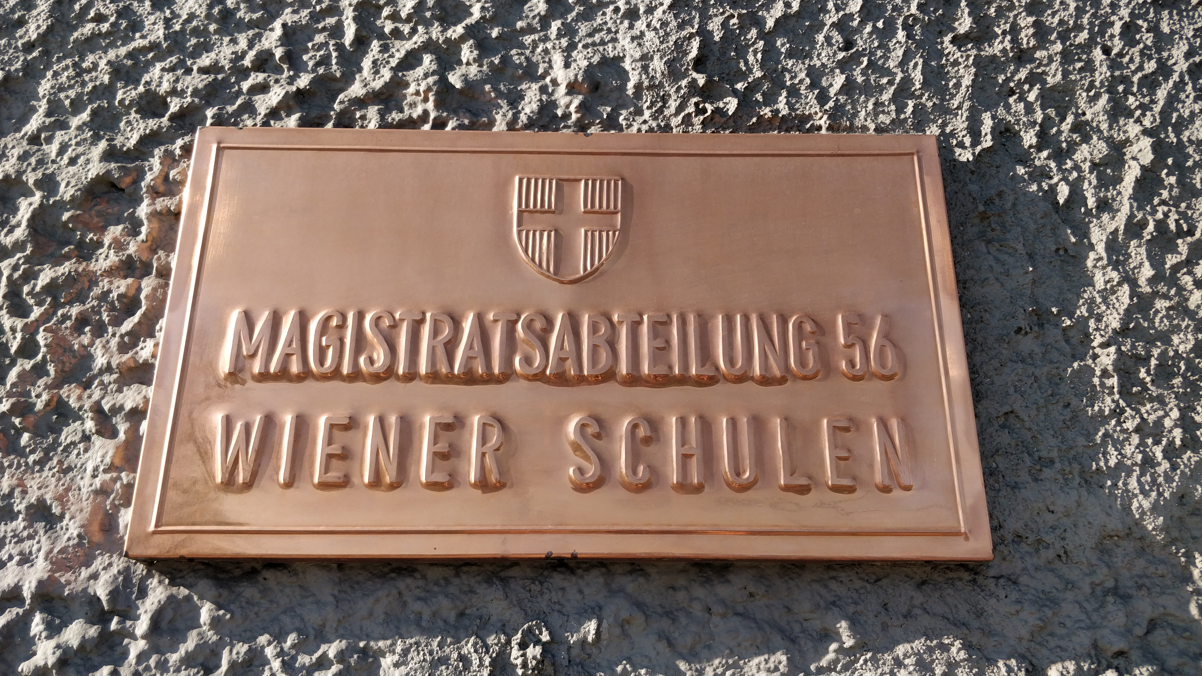 Signage of Vienna's administration department no 56 (Vienna's Schools)